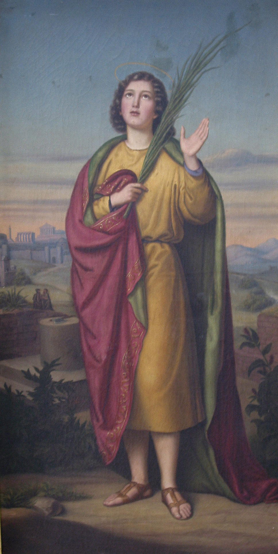 St. Pancratius